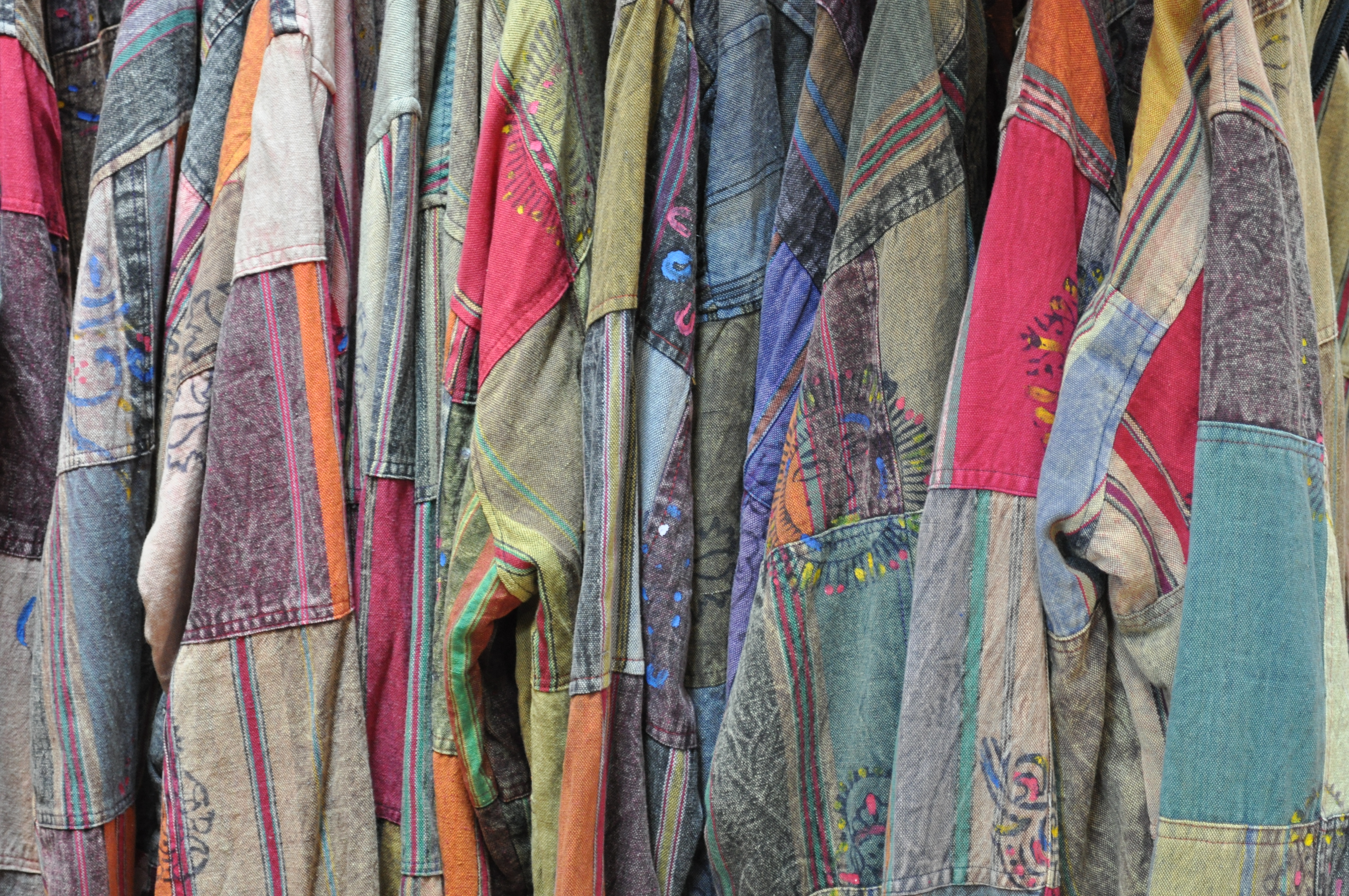 Tibetan textiles, photographed during TibetFest (part of the Festál series of festivals at Seattle Center, Seattle, Washington).